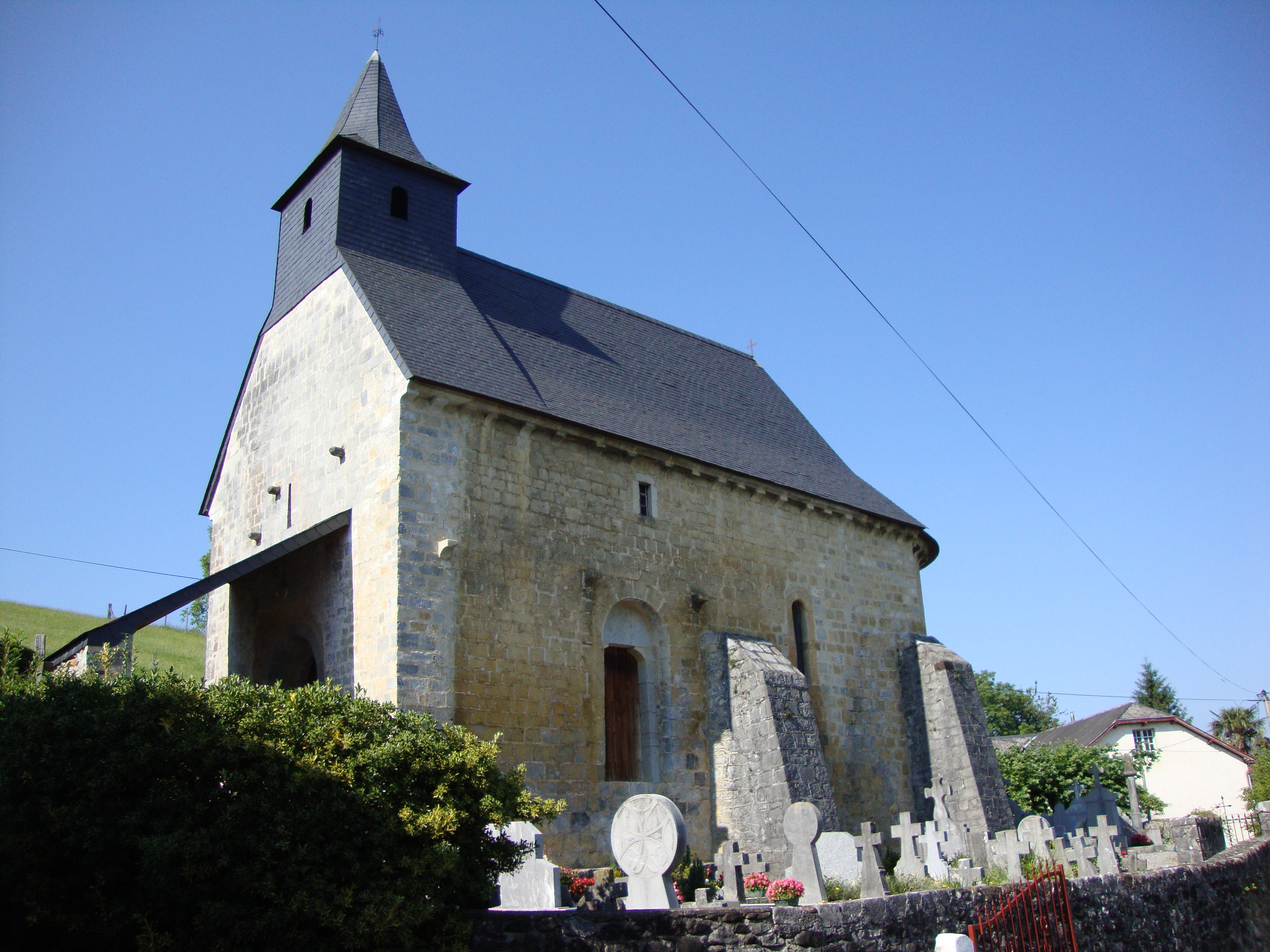 Alçabéhéty (Alçay-Alçabéhéty-Sunharette, Pyr-Atl, Fr) church and cemetery where some basque stele are visible